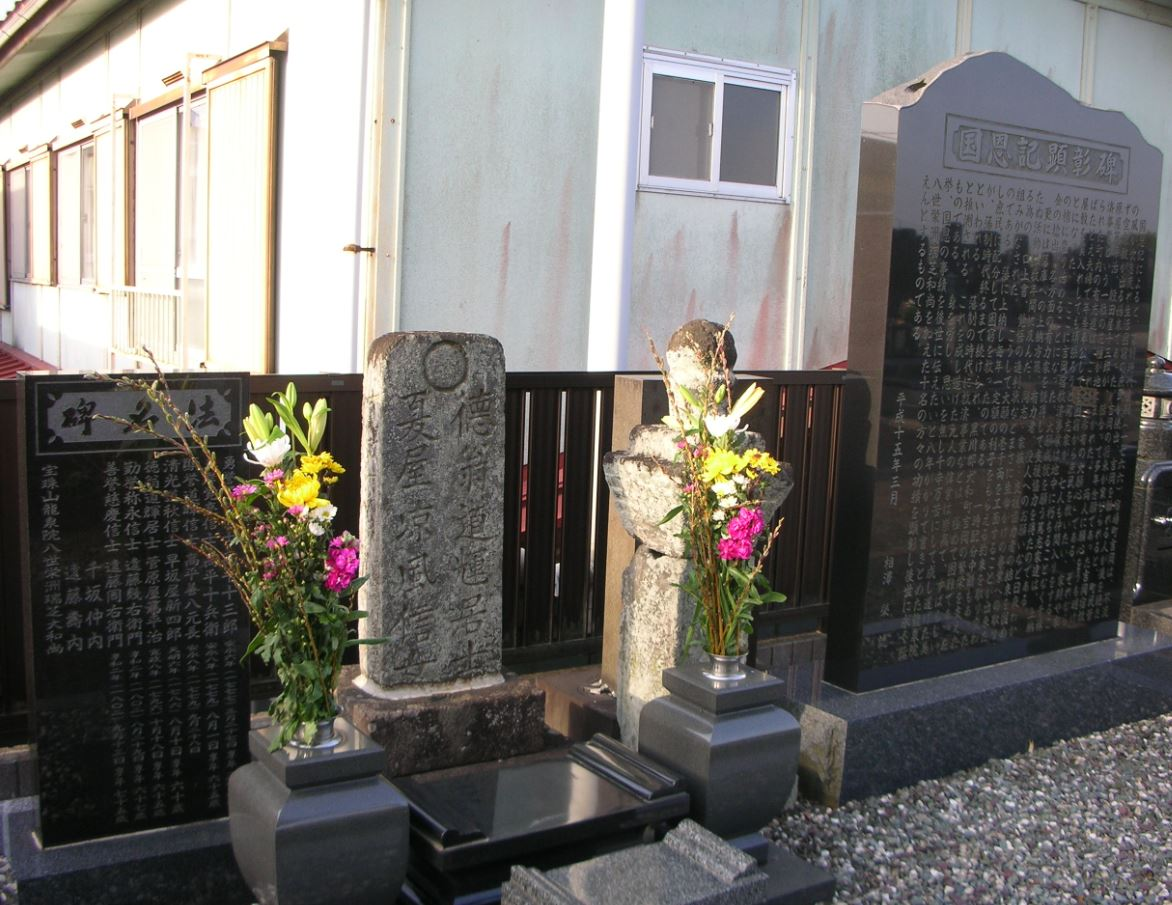 Stele at Kuhonji temple in Taiwa Town, Miyagi Prefecture, Japan